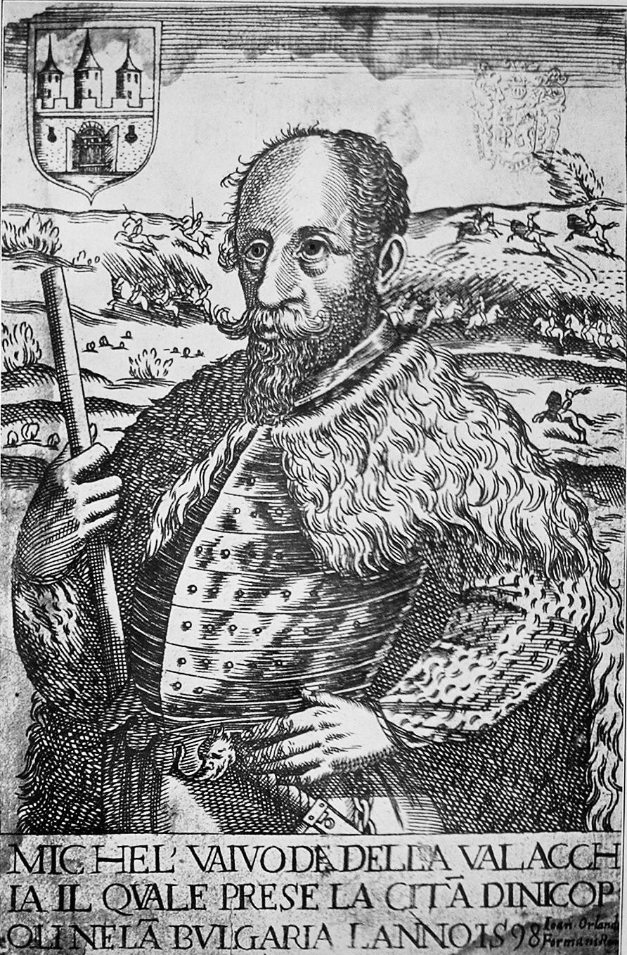 Mihai Viteazul at Nicopole. Engraving by Ioan Orlandi from Rome.